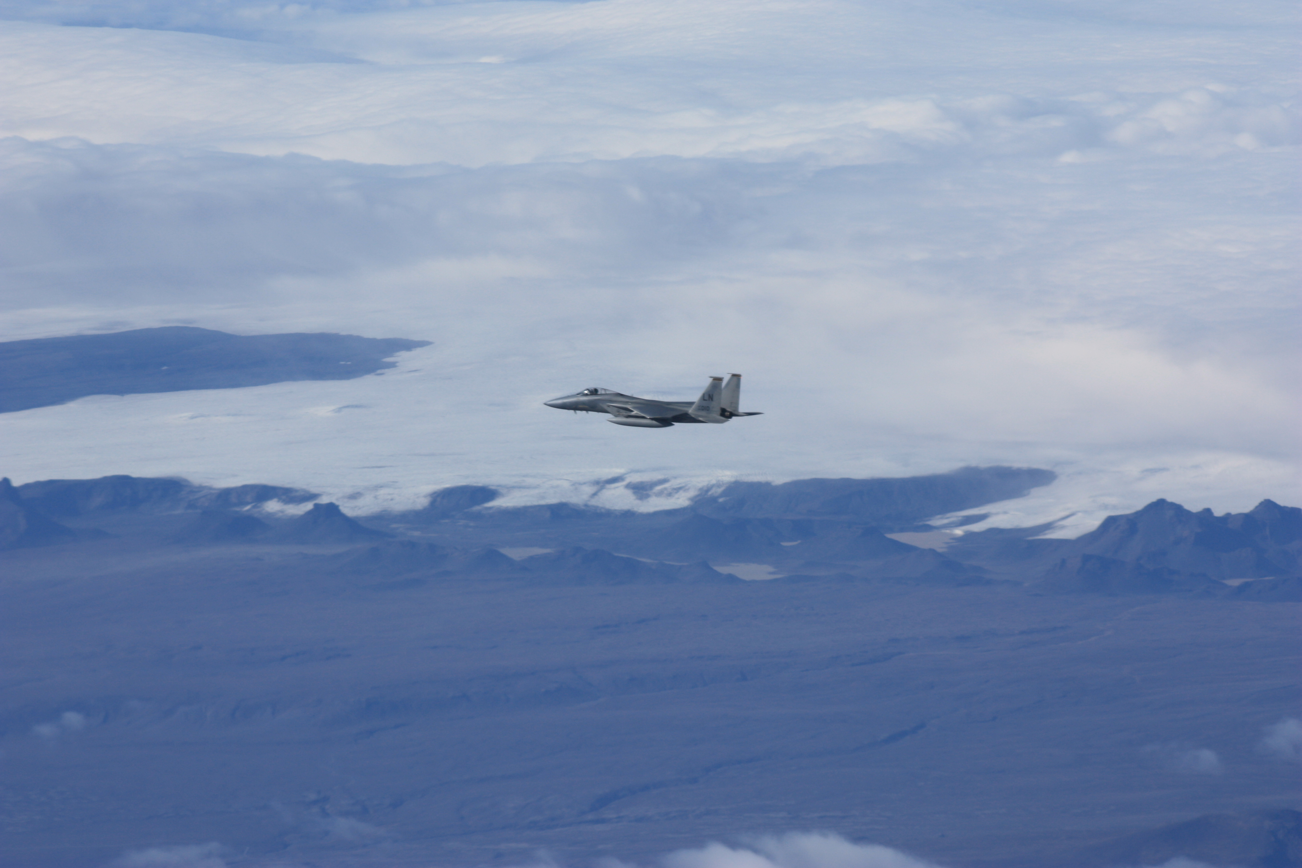 KEFLAVIK, Iceland - An F-15C Eagle flies over Iceland during a flight in support of the Icelandic Air Policing mission Sept. 15, 2010. The IAP is conducted as part of NATO's mission of providing air sovereignty for member nations and has also been conducted by France, Denmark, Spain and Poland.